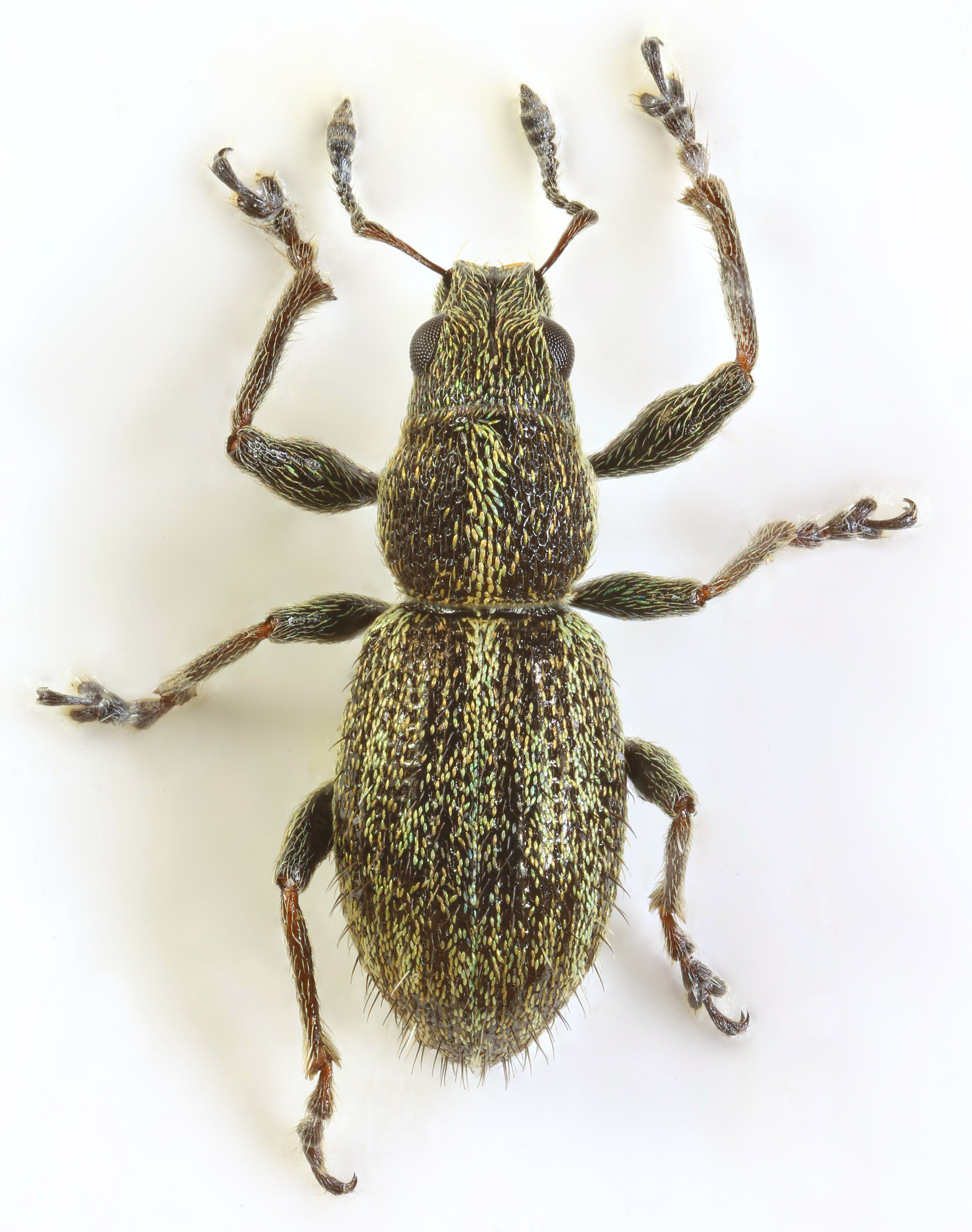 Andrion regensteinense, Newborough forest, North Wales, Sept 2016 2